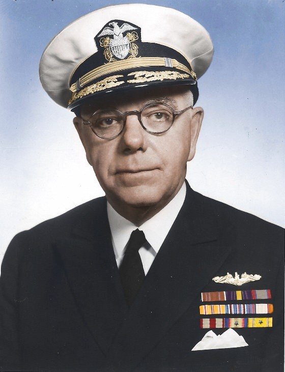 Vice Admiral Arthur S. Carpender. ATTENTION: The colours in the ribbons are not correct. If you identify any error, please contact the original uploader.